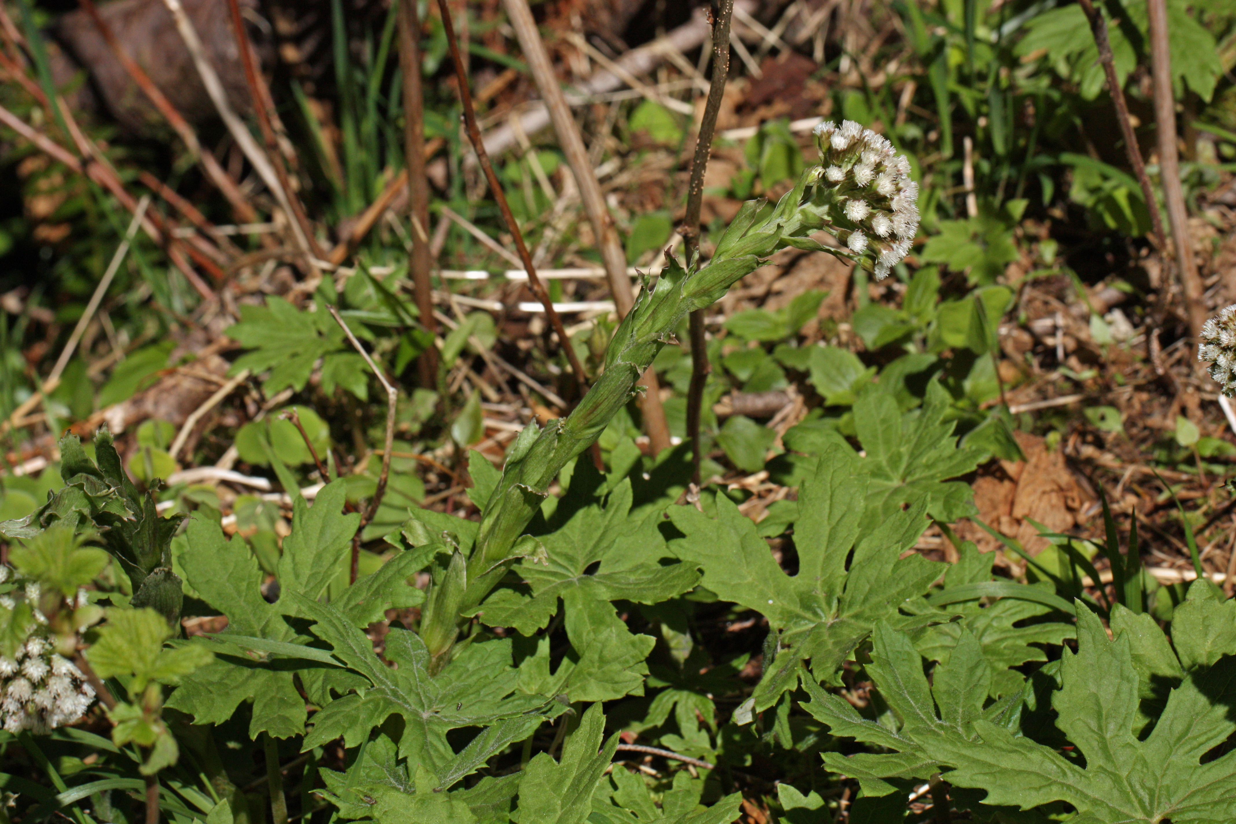 Sweet Coltsfoot, Alpine Butterbur, Arctic Butterbur Viewpoint location: Saddle Mountain Trail, Saddle Mountain State Natural Area Viewpoint elevation: 691 meter (2268 ft) Location source: Garmin GPSmap 60CSx Location Datum: WGS84